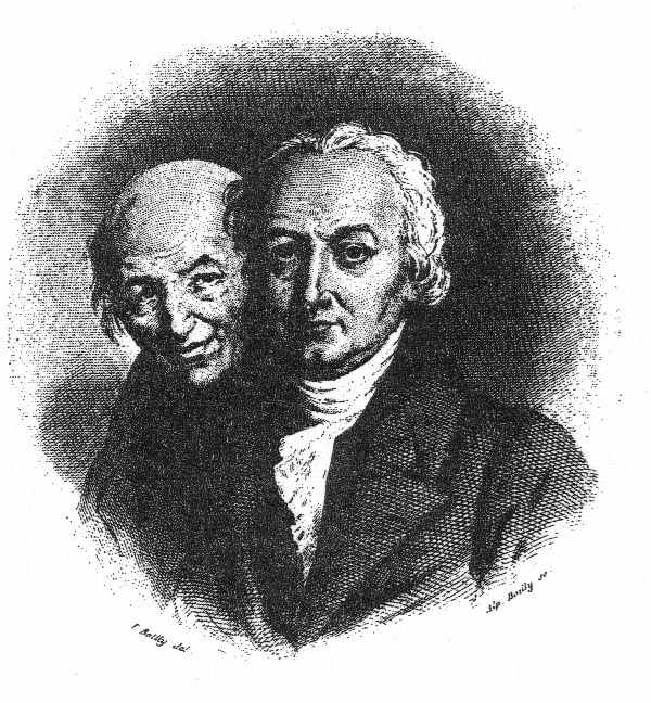 Brothers of Haüy (René Just Haüy [behind] and Valentin (front)